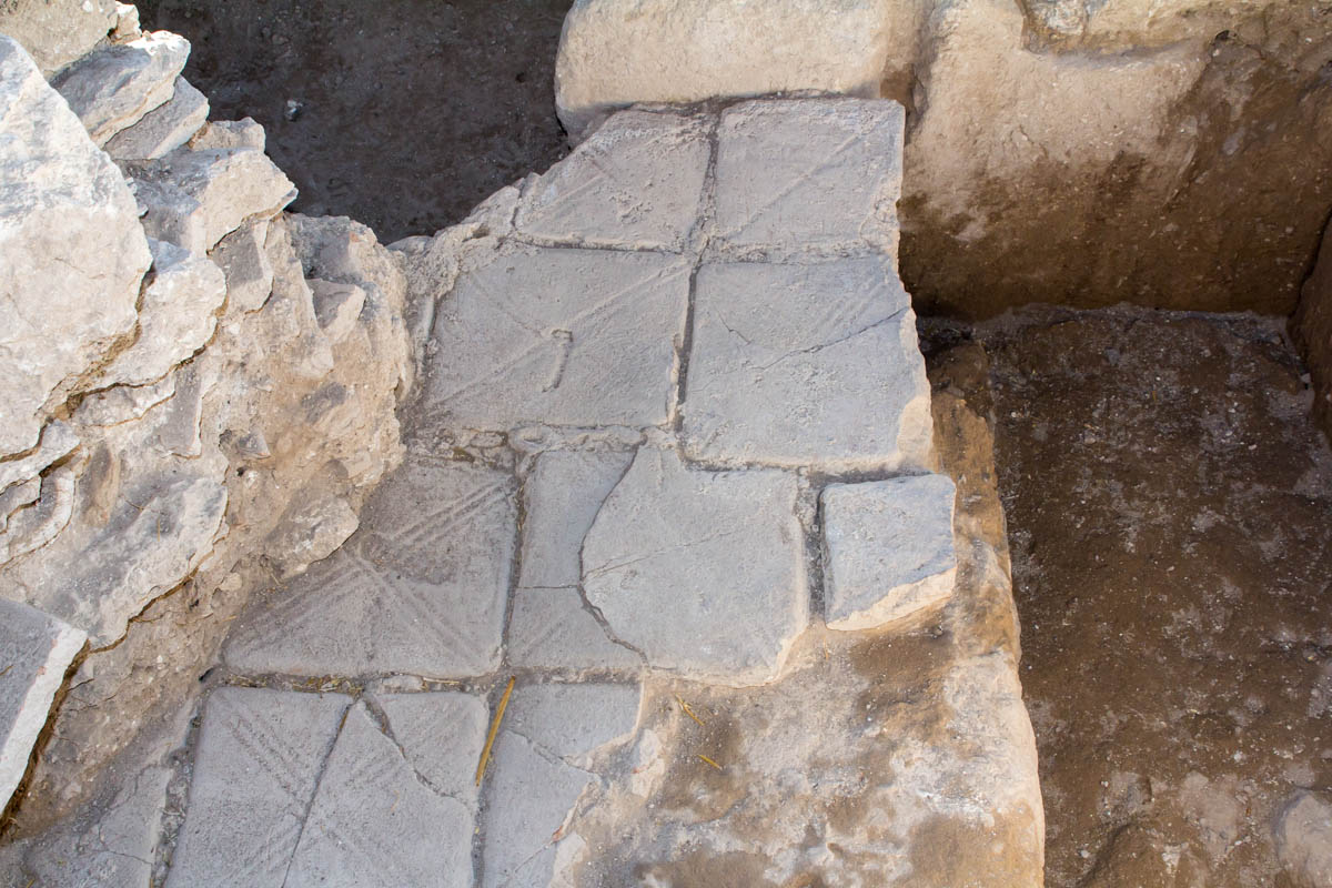 Excavation of Legio VI Ferrata camp near Megiddo, Israel